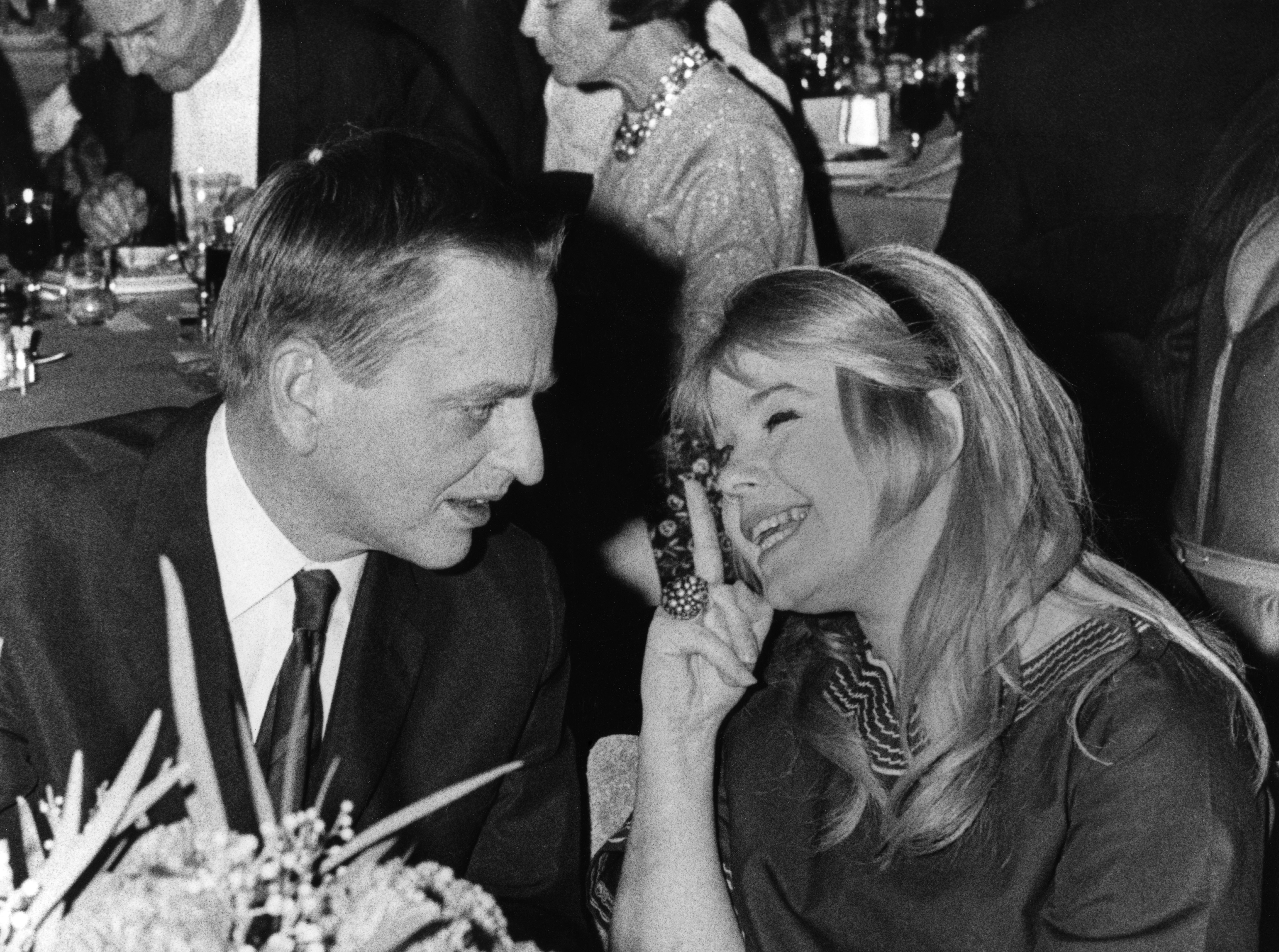 1968 Swedish Film Institute Guldbagge Awards. Olof Palme discuss with Lena Nyman who received one of the three awards distributed that year.